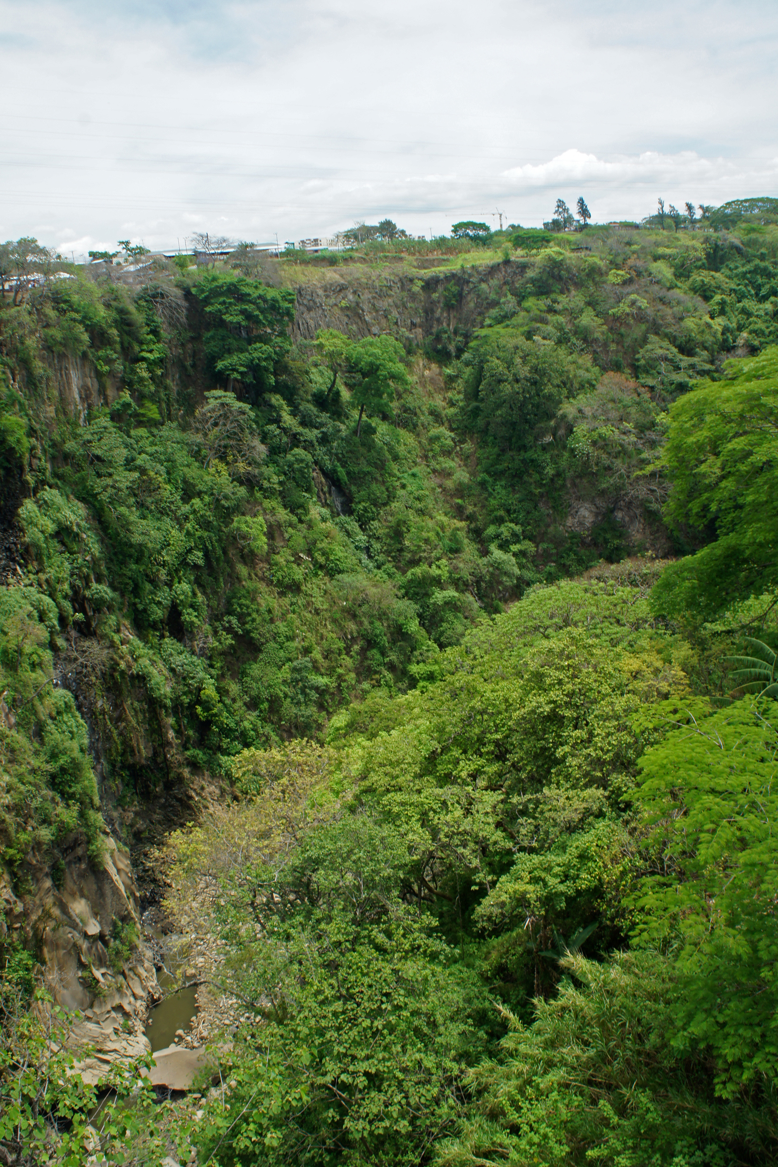 Virilla river canyon near the crossing of Route 27 (Ciudad Colon-Caldera), Costa Rica